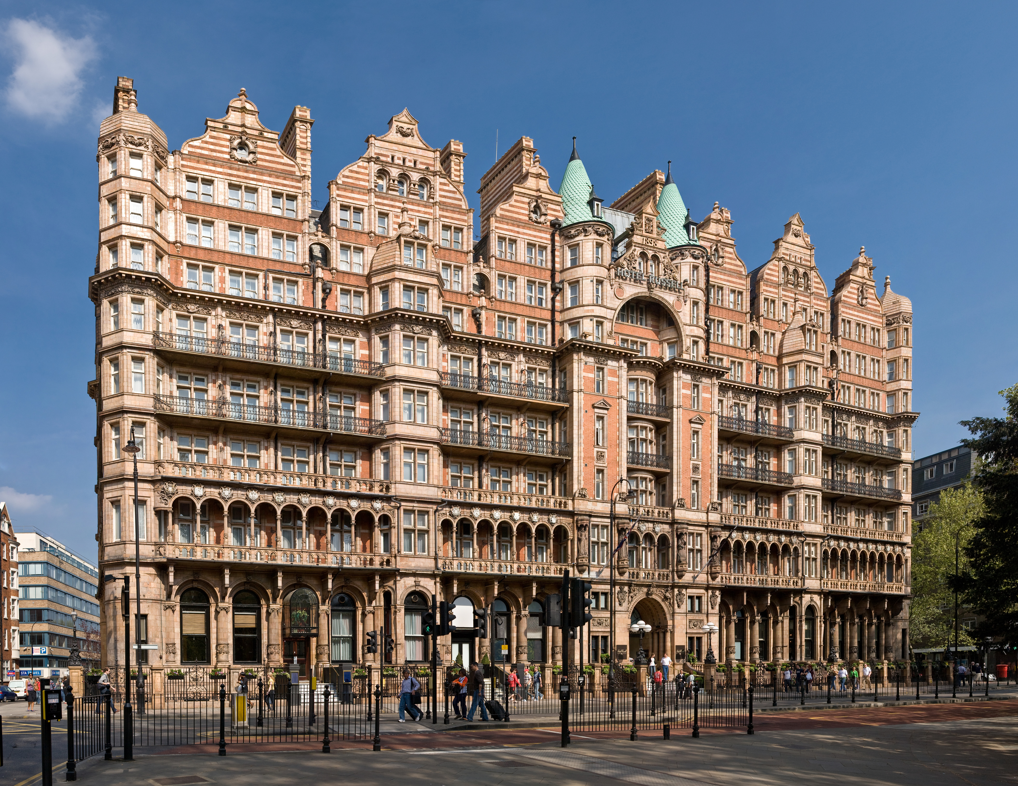 A 3 by 3 segment perspective-corrected panoramic image of Hotel Russell on Russell Square in London, England. Taken by myself with a Canon 5D and 24-105mm f/4L IS lens.